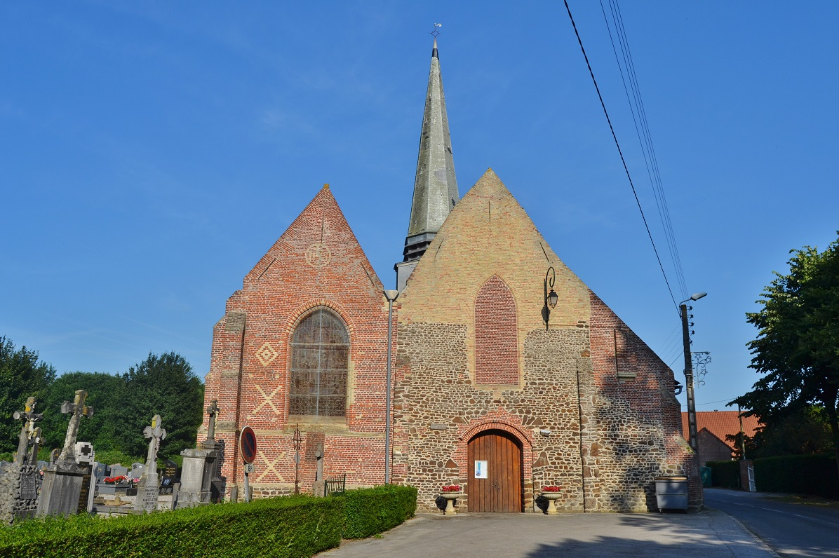 église St Omer